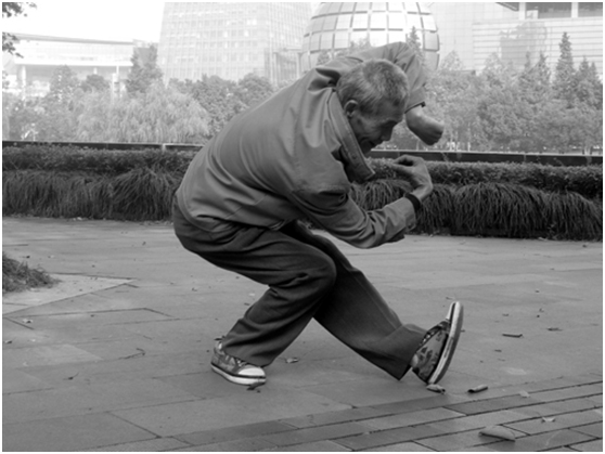 Shenbinghu